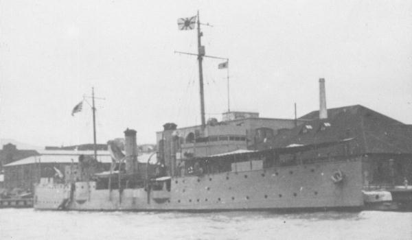 Asuka, ship of the Imperial Japanese Navy, at Shanghai. (wx-Chinese gunboat)